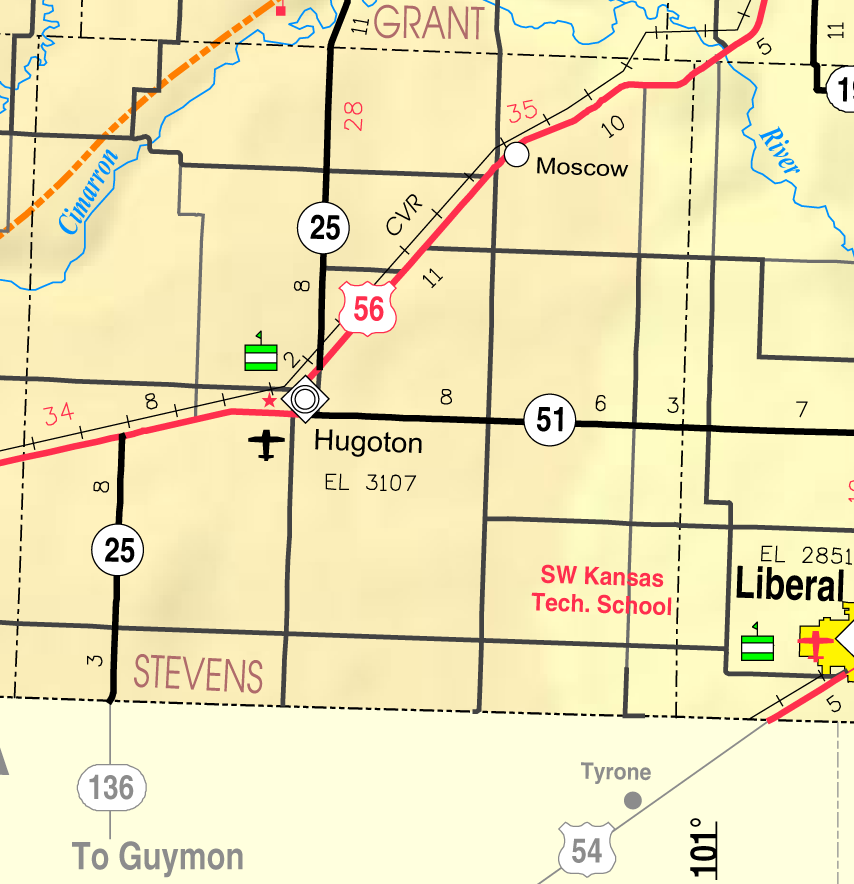 This map of Stevens County, Kansas, USA, is copied at a resolution of 300 pixels/inch from the original PDF file.